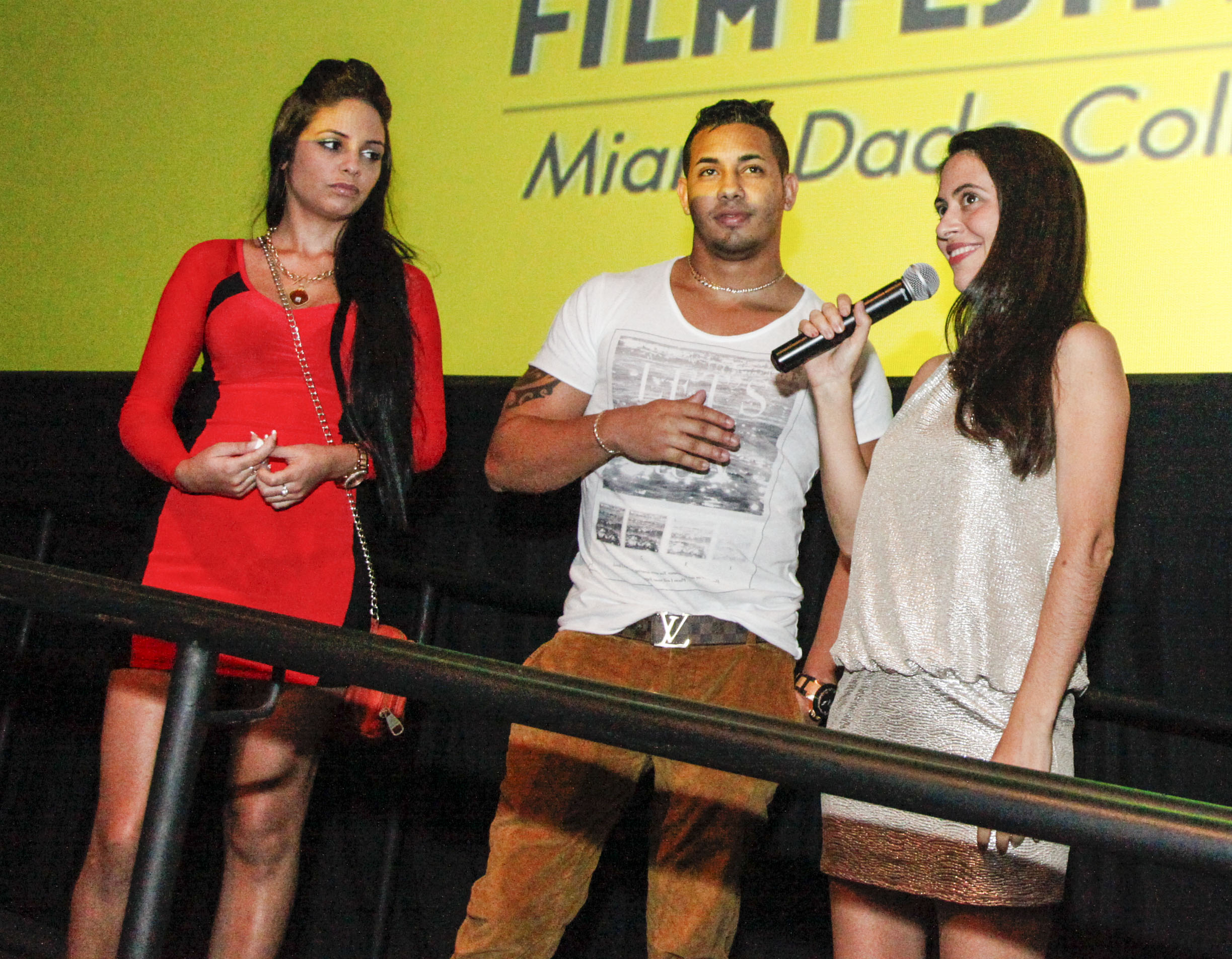 UNA NOCHE lead actors Anailín de la Rúa de la Torre, Javier Núñez Florián, director Lucy Mulloy and MIFF executive director Jaie Laplante at the Miami Film Society special event screening of UNA NOCHE at the Paragon Coconut Grove.